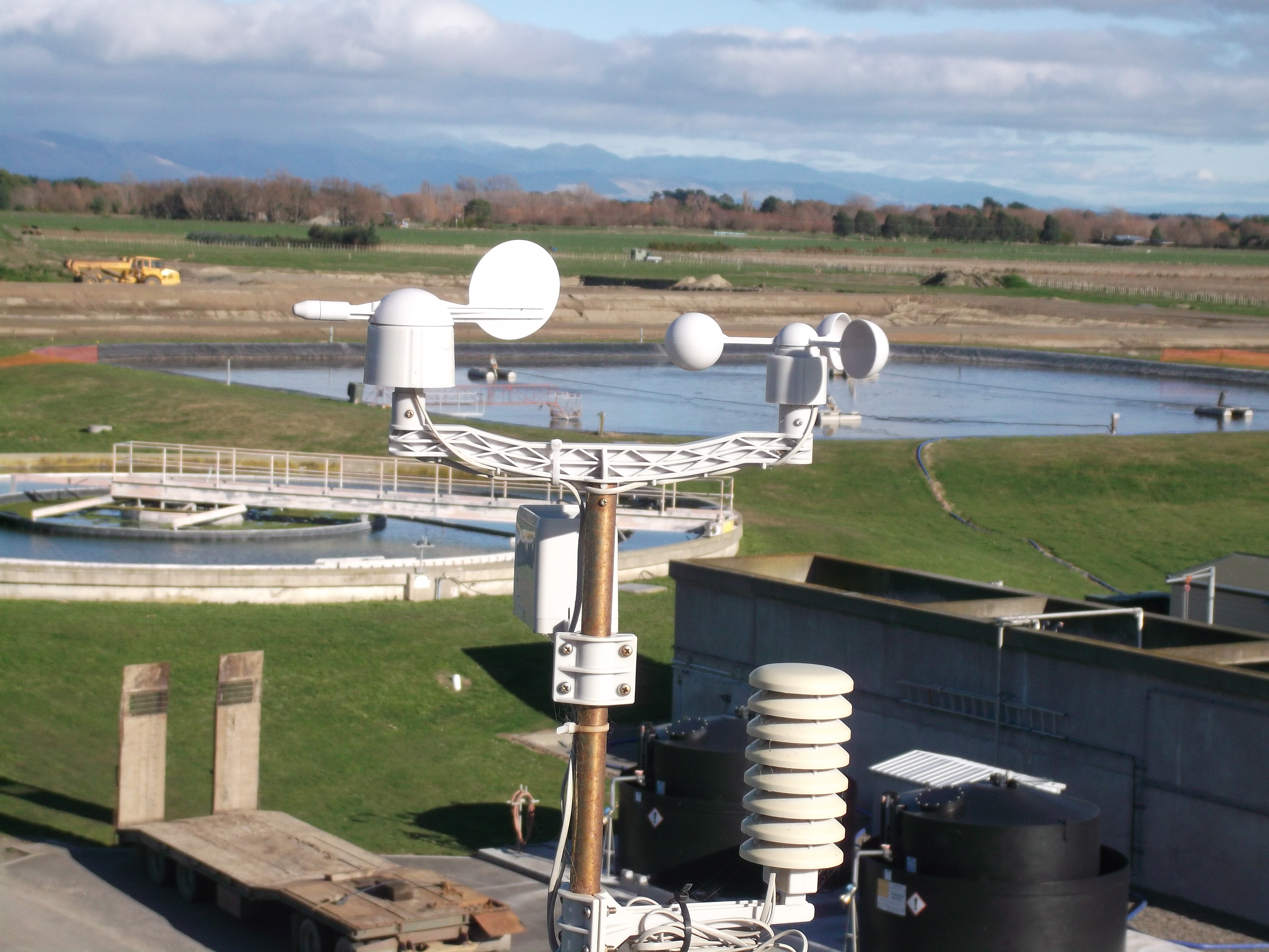 A weather station atop a digester at the Feilding, New Zealand Waste Water Treatment Plant.